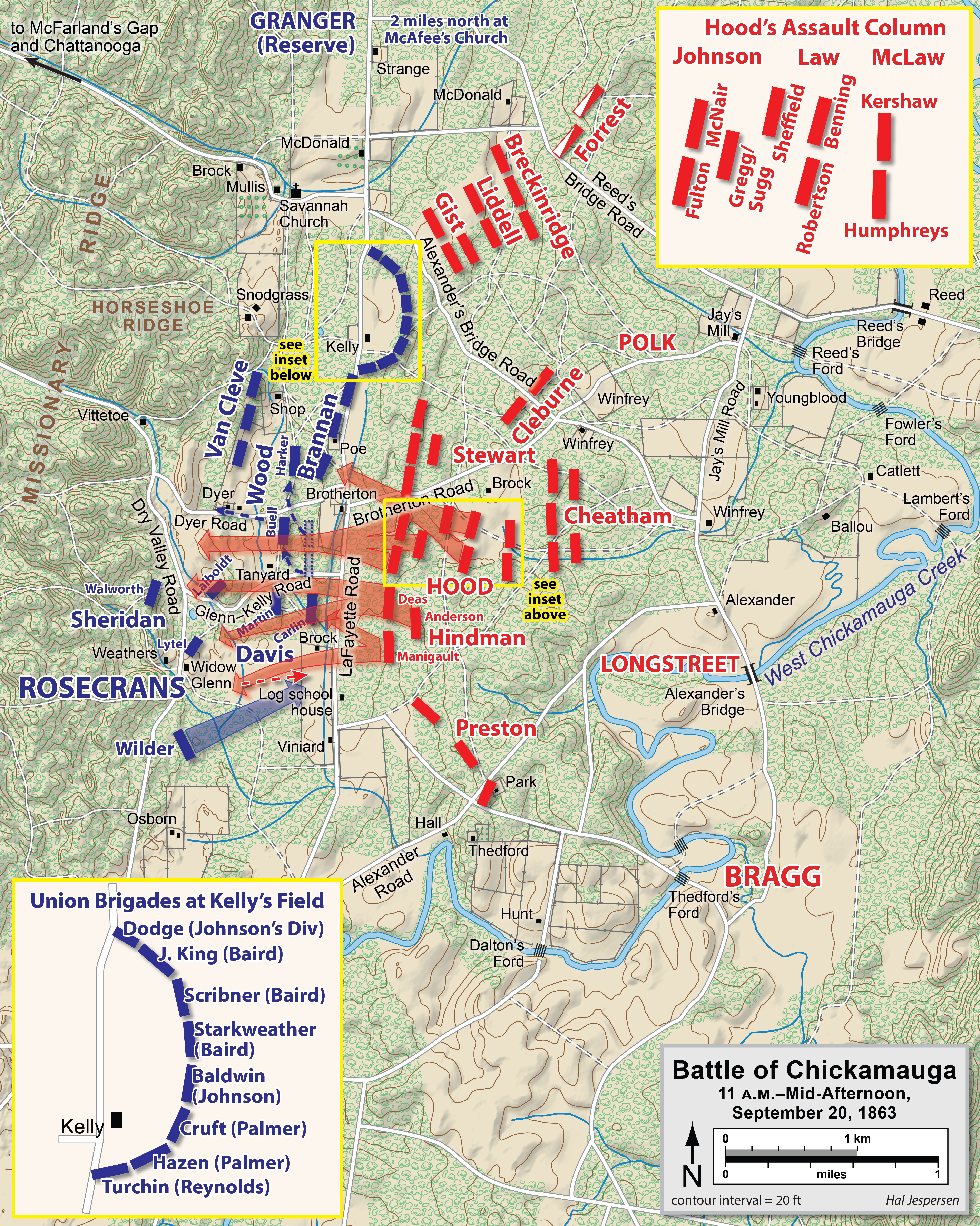 Map of Battle of Chickamauga of the American Civil War, actions on September 20, 1863, part 2. Drawn in Adobe Illustrator CS5 by Hal Jespersen. Graphic source file is available at